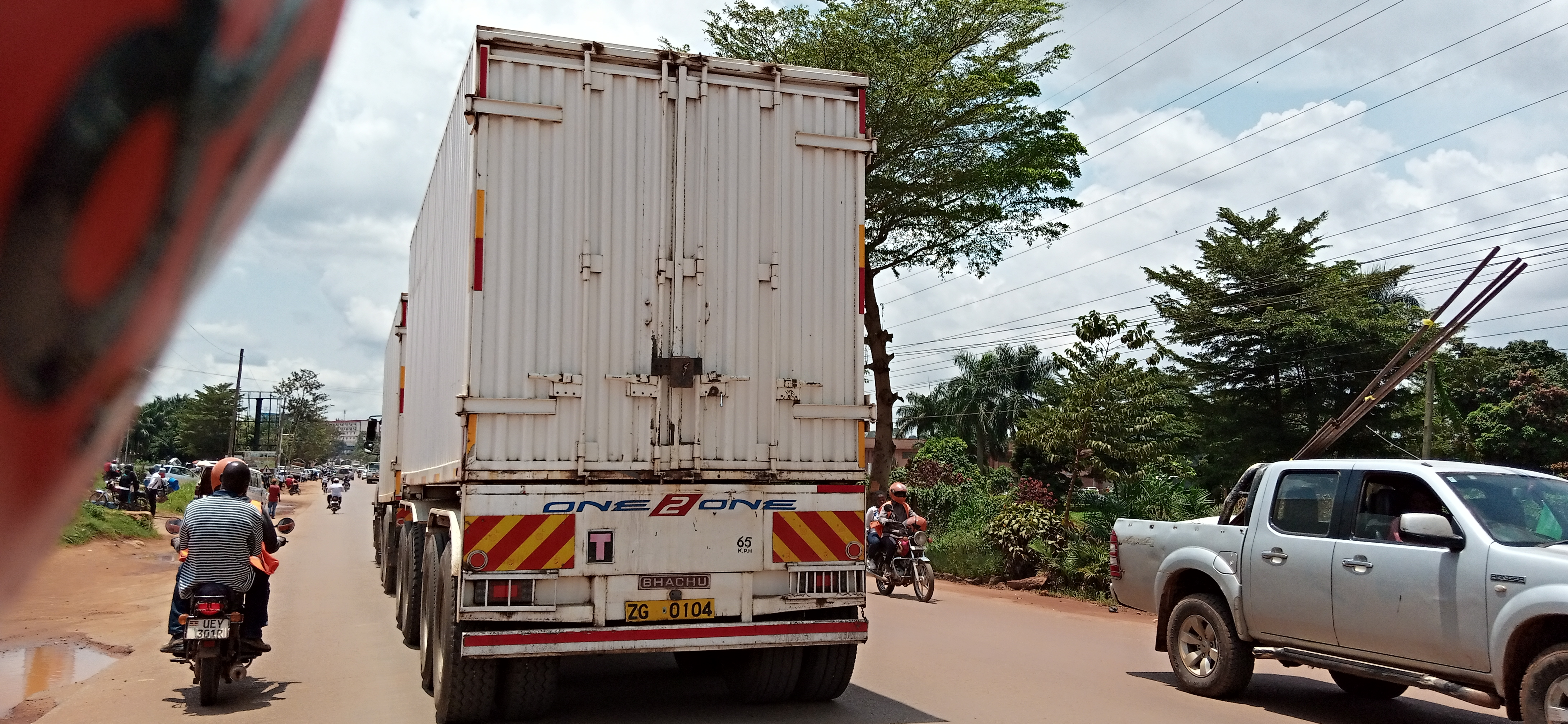 Lorry transporting goods This is an image with the theme "Africa on the Move or Transport" from: Uganda